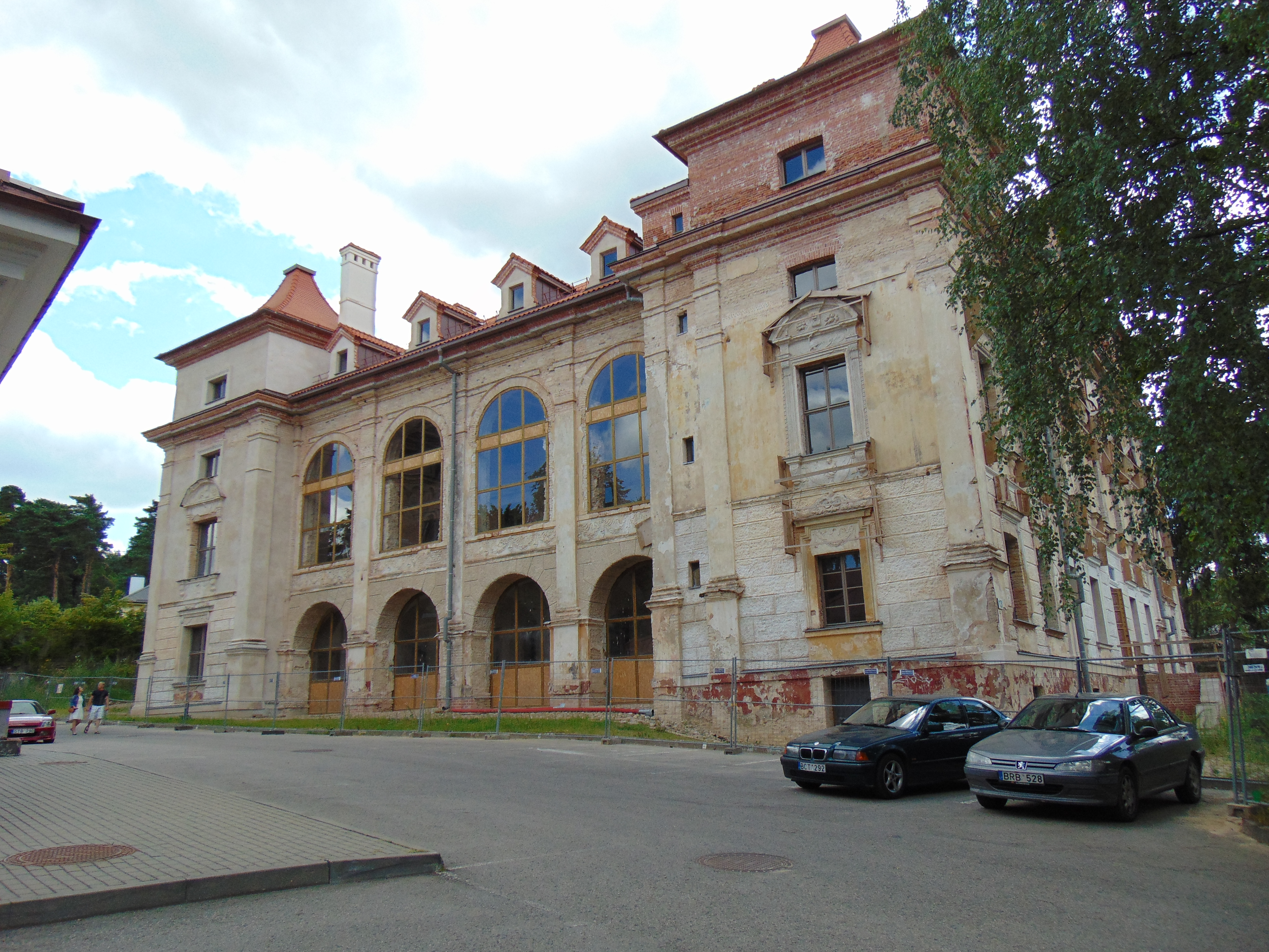 Sapieha Palace in Vilnius, north side by 2015